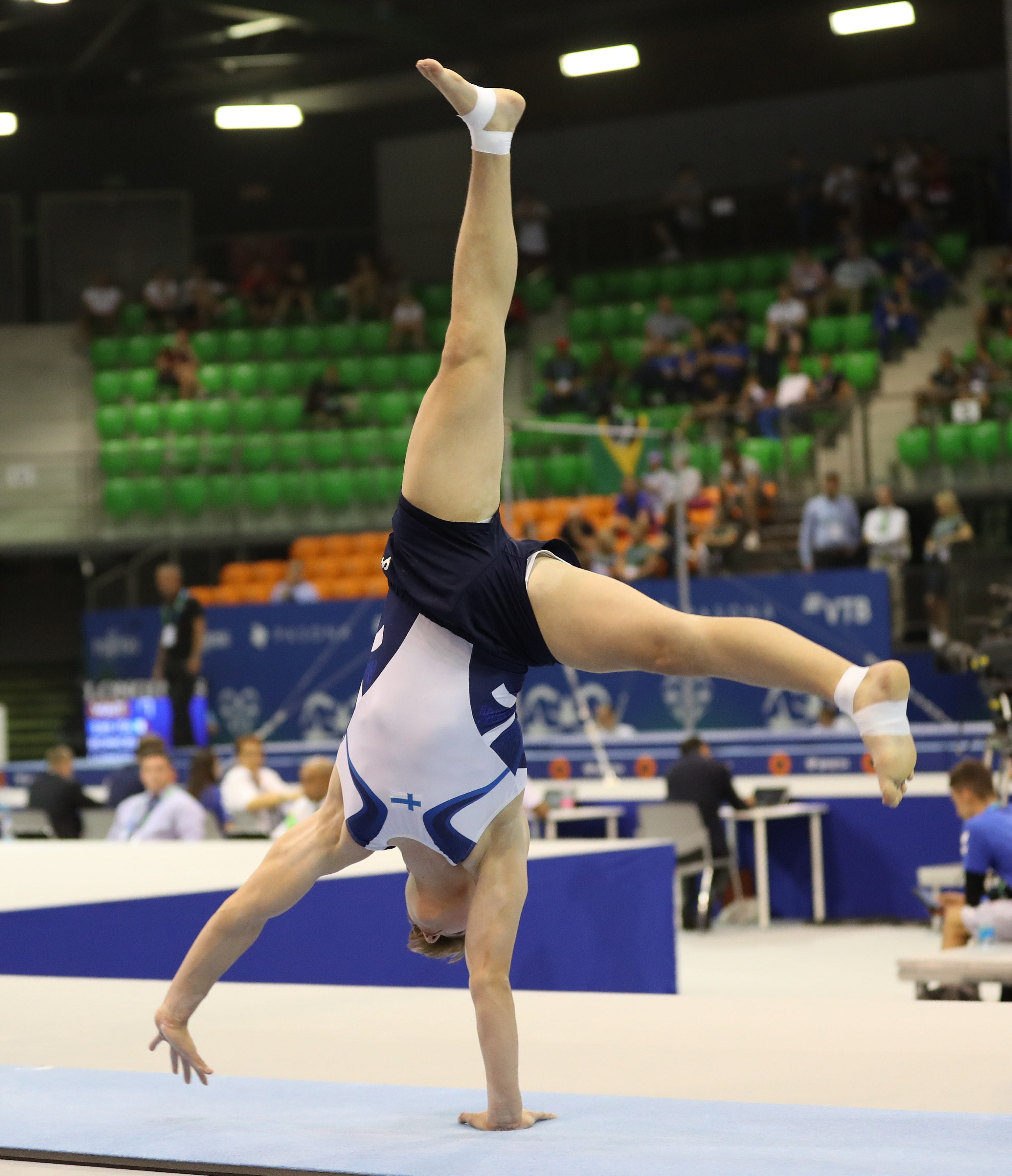 Vault exercise of subdivision 4 during the boys' all-around competition at the 1st FIG Artistic Gymnastics Junior World Championships on 27 June 2019 in Győr, Hungary. Depicted: Akseli Karsikas.